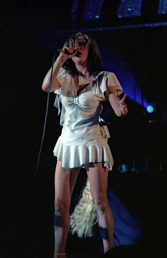 Alison pretending to be a white horse? Hammersmith Apollo, Oct 2003. Nikon F601 75-150 3.5 E series lens, Fujipress 800.